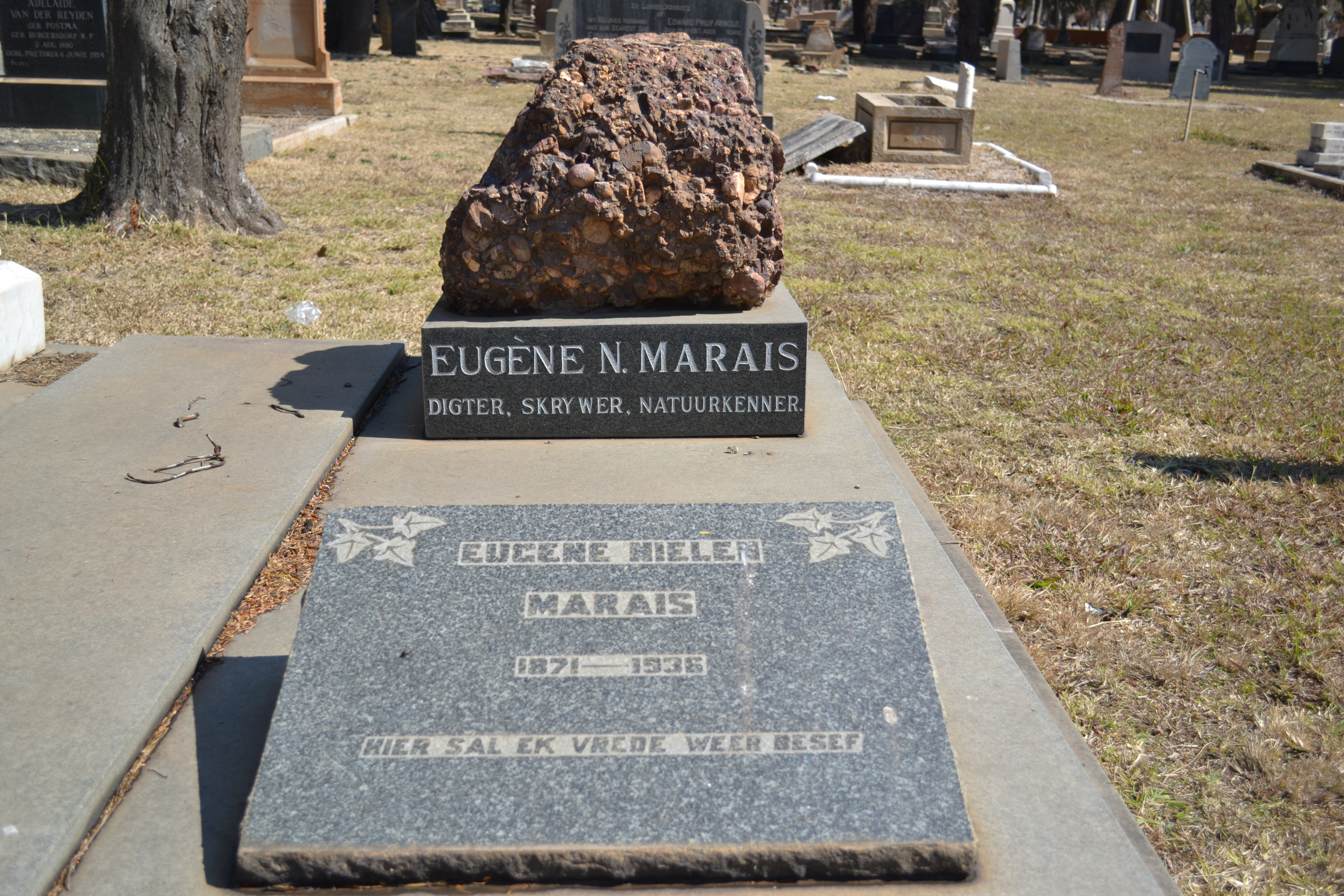 Eugène N. Marais – writer, lawyer and naturalist Church Street Cemetery in Pretoria This media shows a South African Protected Site with SAHRA file reference 000000.